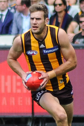 Grant Birchall during the AFL round two match between Hawthorn and Adelaide on 1 April 2017 at the Melbourne Cricket Ground in Melbourne, Victoria.